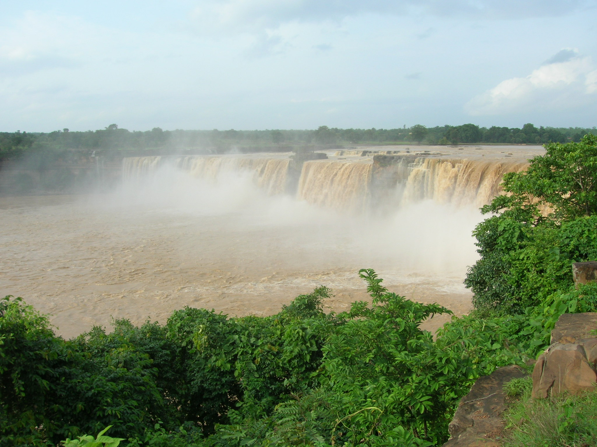 chitrakot waterfall